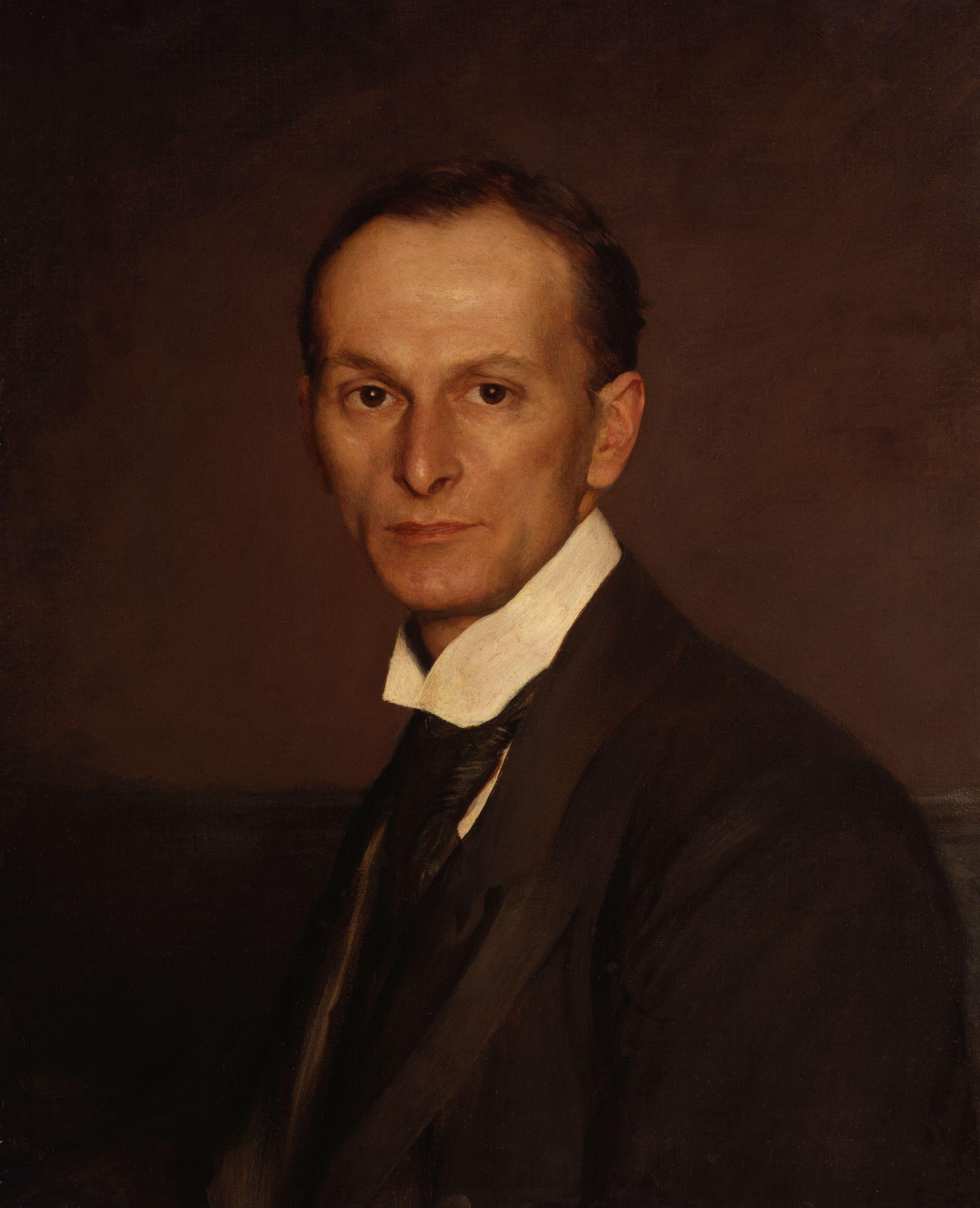 Marion Harry Spielmann, by John Henry Frederick Bacon (died 1914), given to the National Portrait Gallery, London in 1964. All images in this batch have been confirmed as author died before 1939 according to the official death date listed by the NPG.